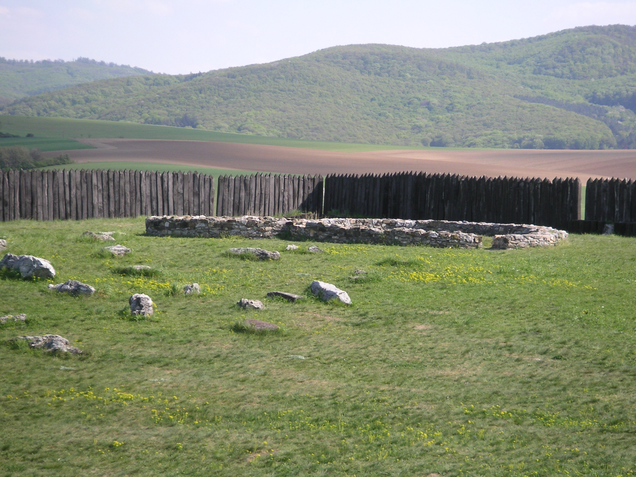 Kostolec hillfort near Ducové, Slovakia This medium shows the protected monument with the number 204-2525/1 in the Slovak Republic.